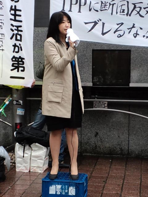 Yukiko Miyake, Head of the 7th Election Campaign Office for the House of Councillors Proportional Representation, People's Life Party, performed street oratory about the Trans-Pacific Partnership in Shibuya Ward, Tōkyō Metropolis on April 21, 2013.